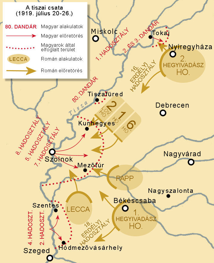 Hungarian-Romanian War of 1919, the battle of Tisza, 20-26 July (Language: Hungarian)